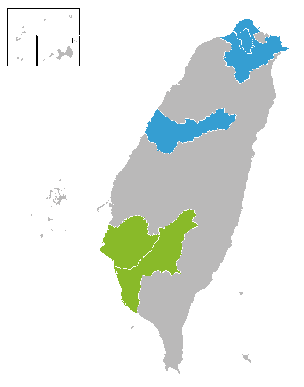 Graphical depiction of the 2010 Municipal Mayoral Election Results.